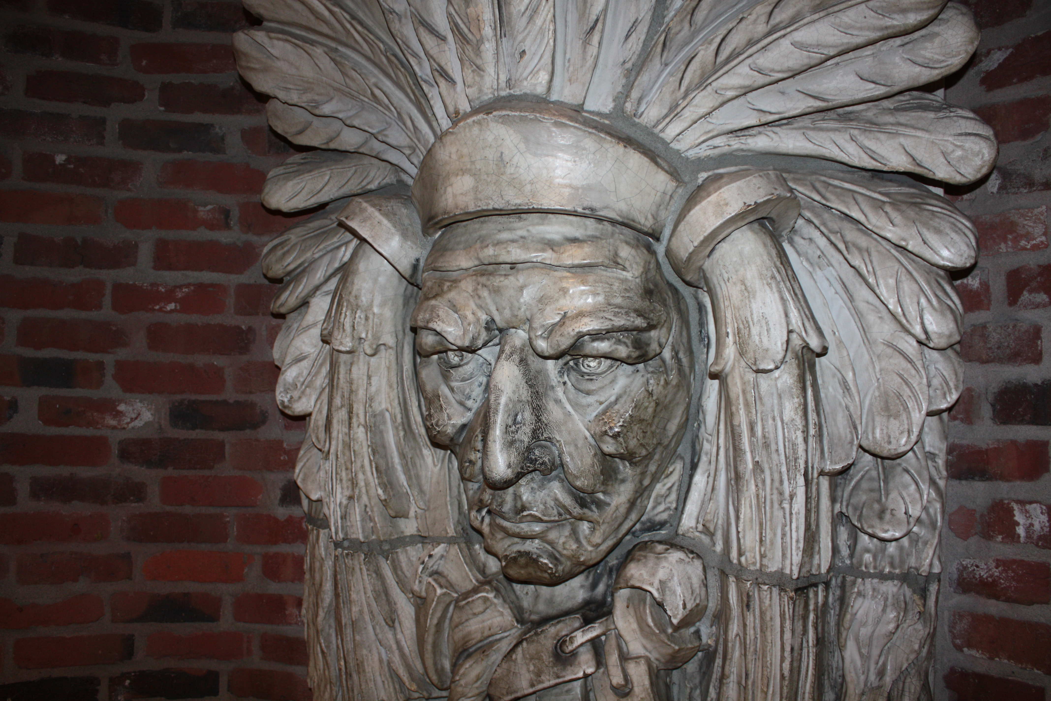 Native American head statue. Taken in the underground mall at Rainier Square.